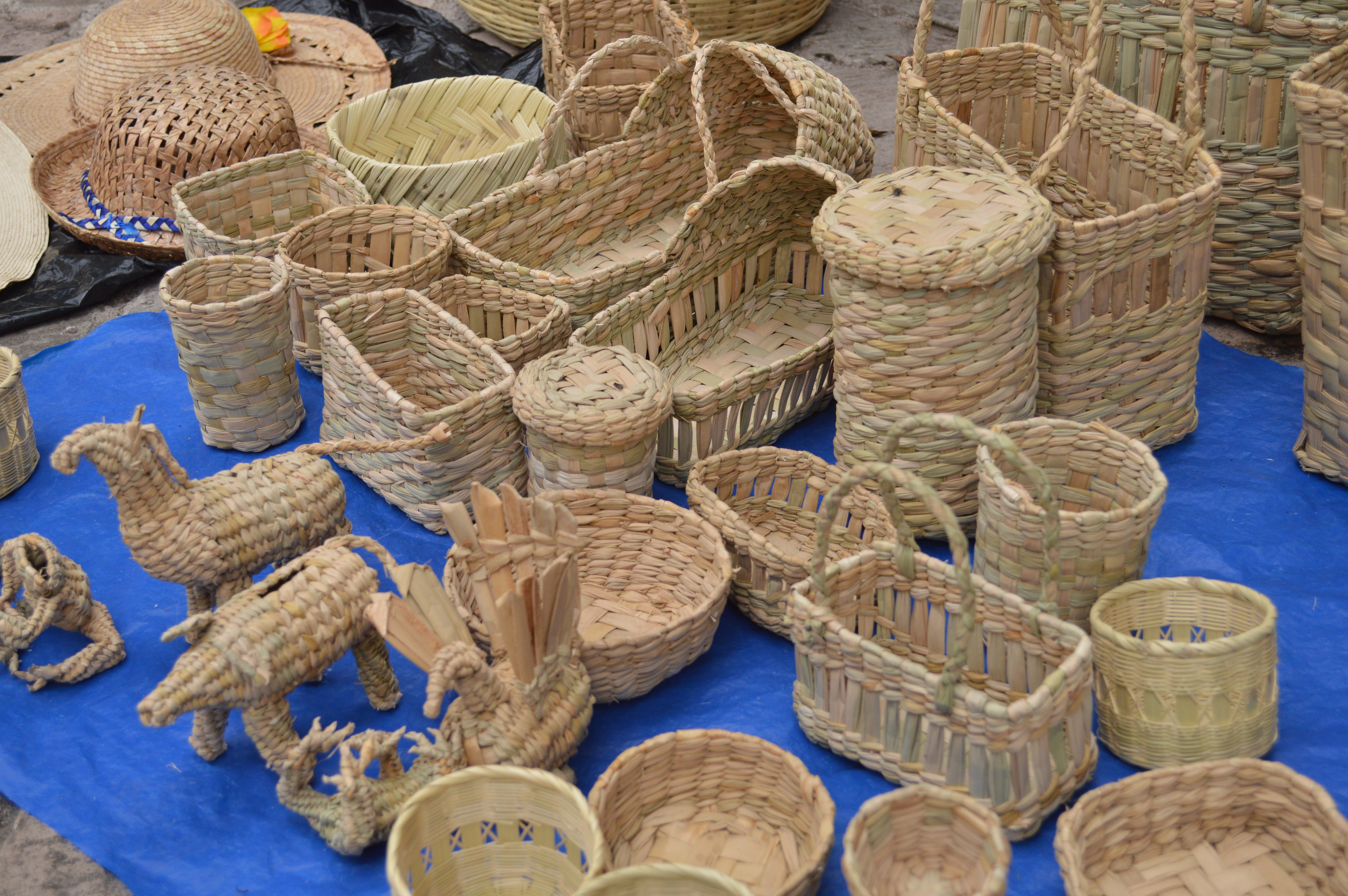 Basketry for sale in Cuitzeo, Michoacán, Mexico